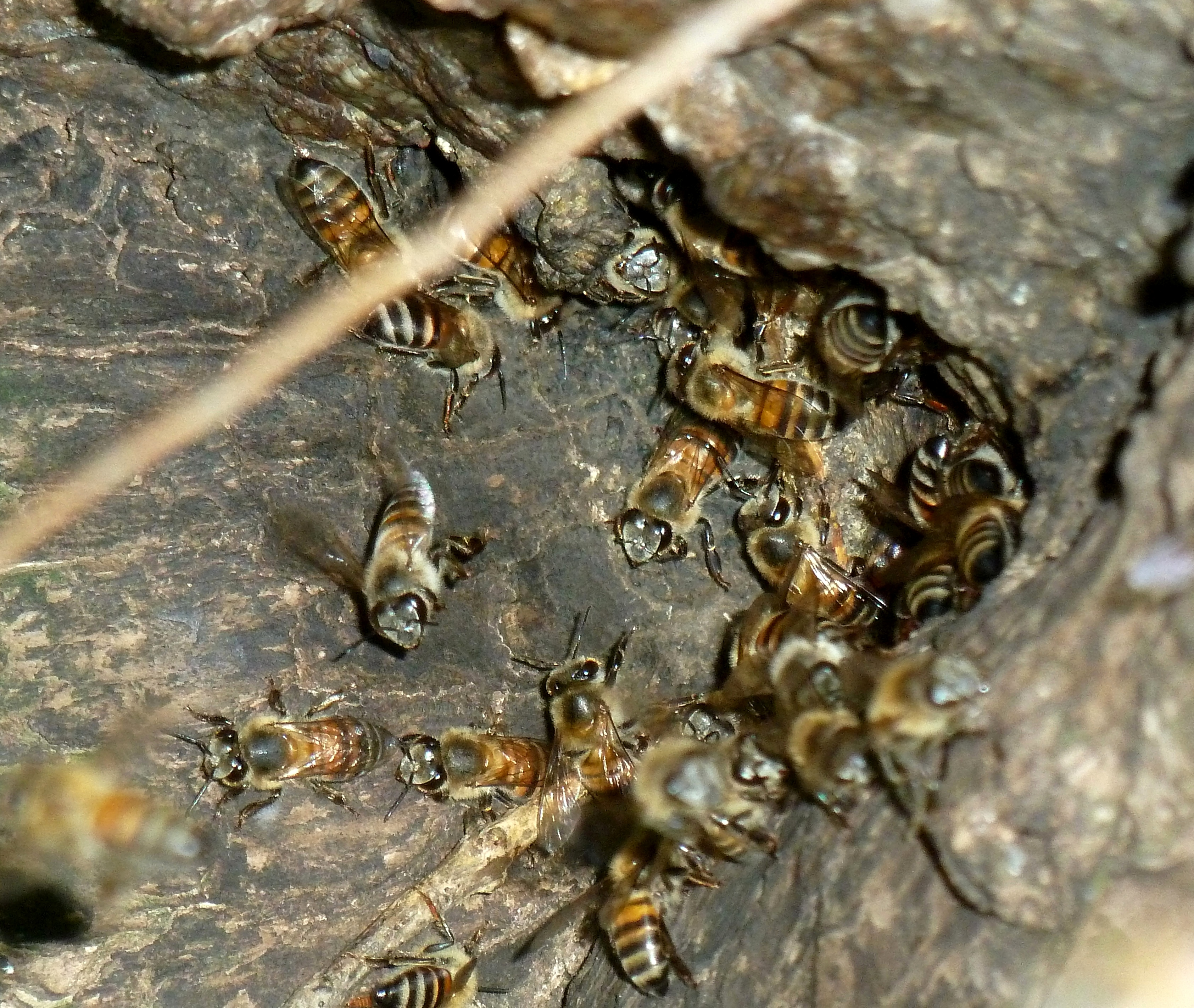 African honey bees entering and exiting their nest in a rock crevasse in Groenkloof Nature Reserve